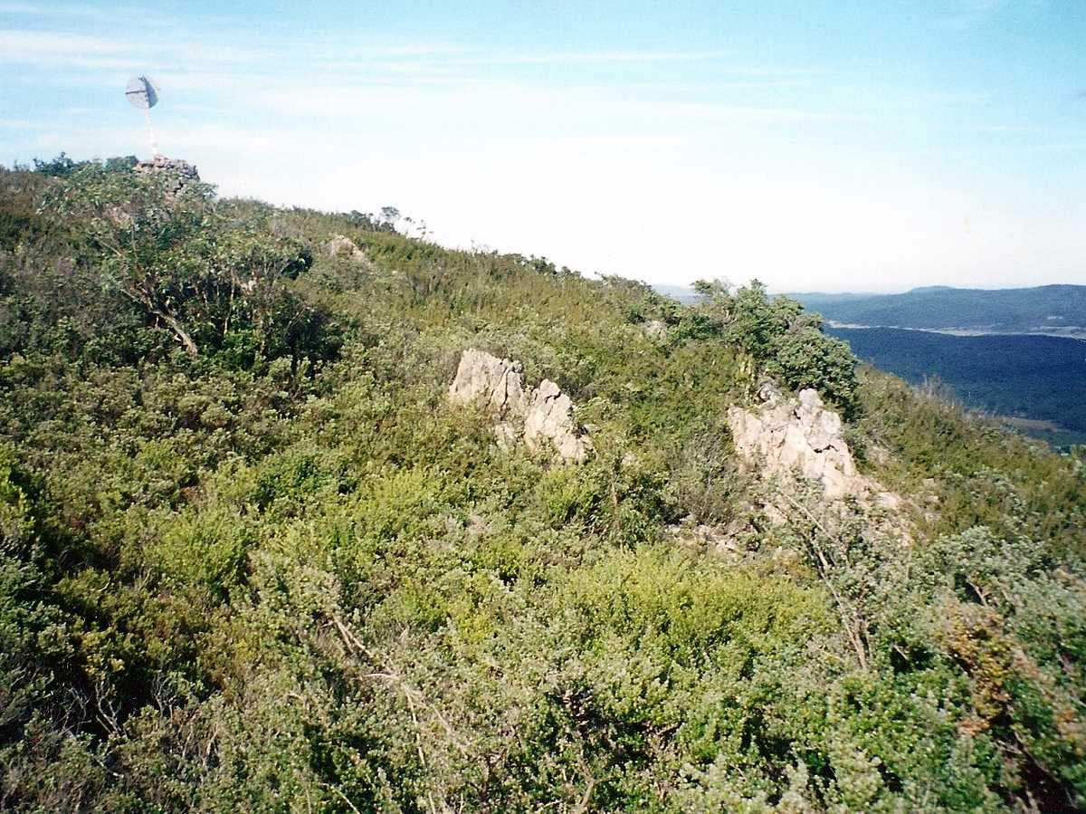 Summit of Big Badja, 47 kilometres from Cooma, NSW, Australia